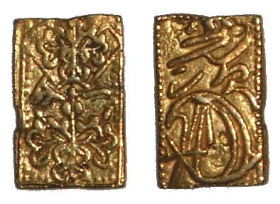 Shotokukoki-1buban